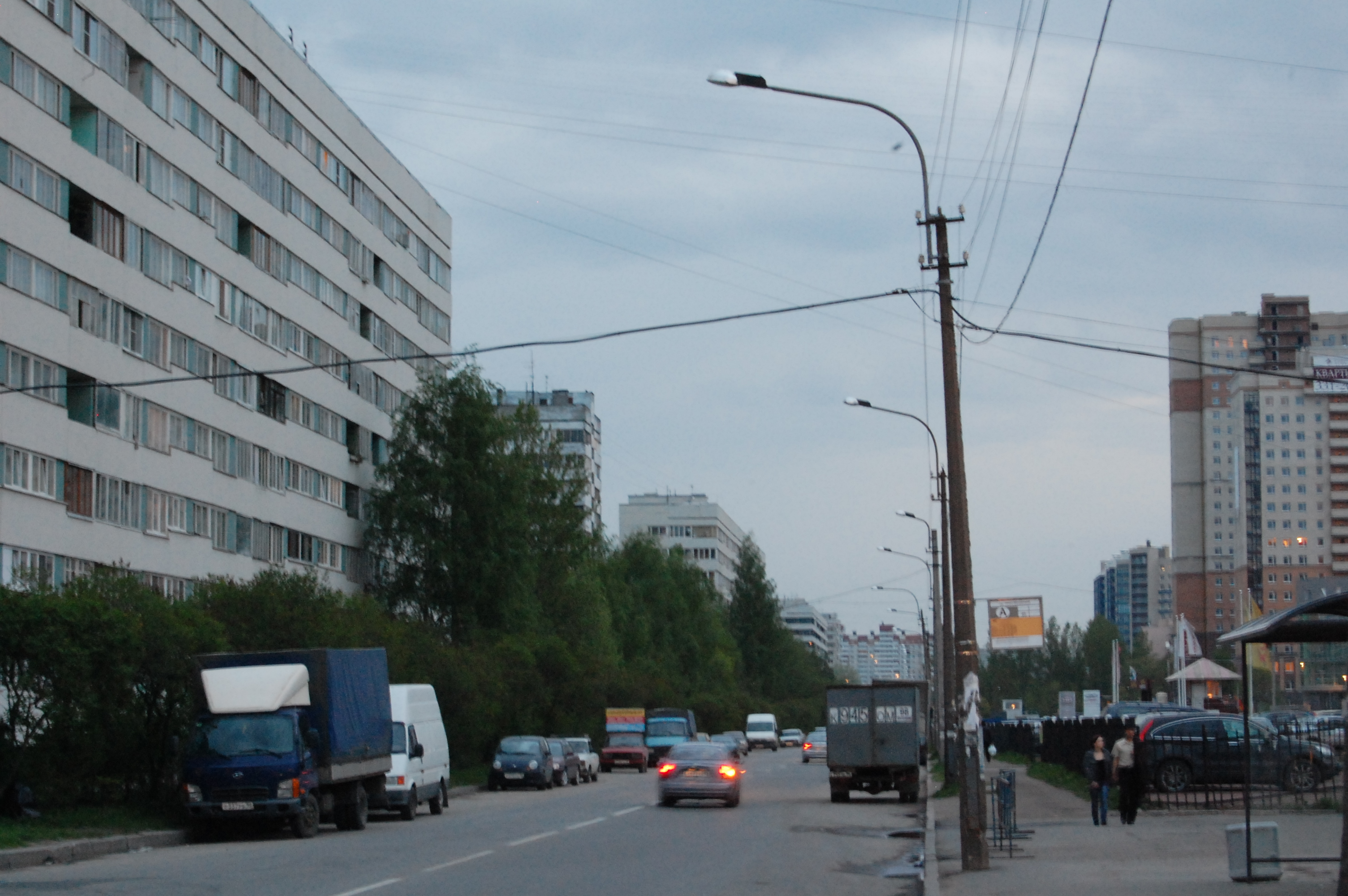 Ushinskogo Street in Saint Petersburg, Russia viewed from Prosvescheniya Avenue.